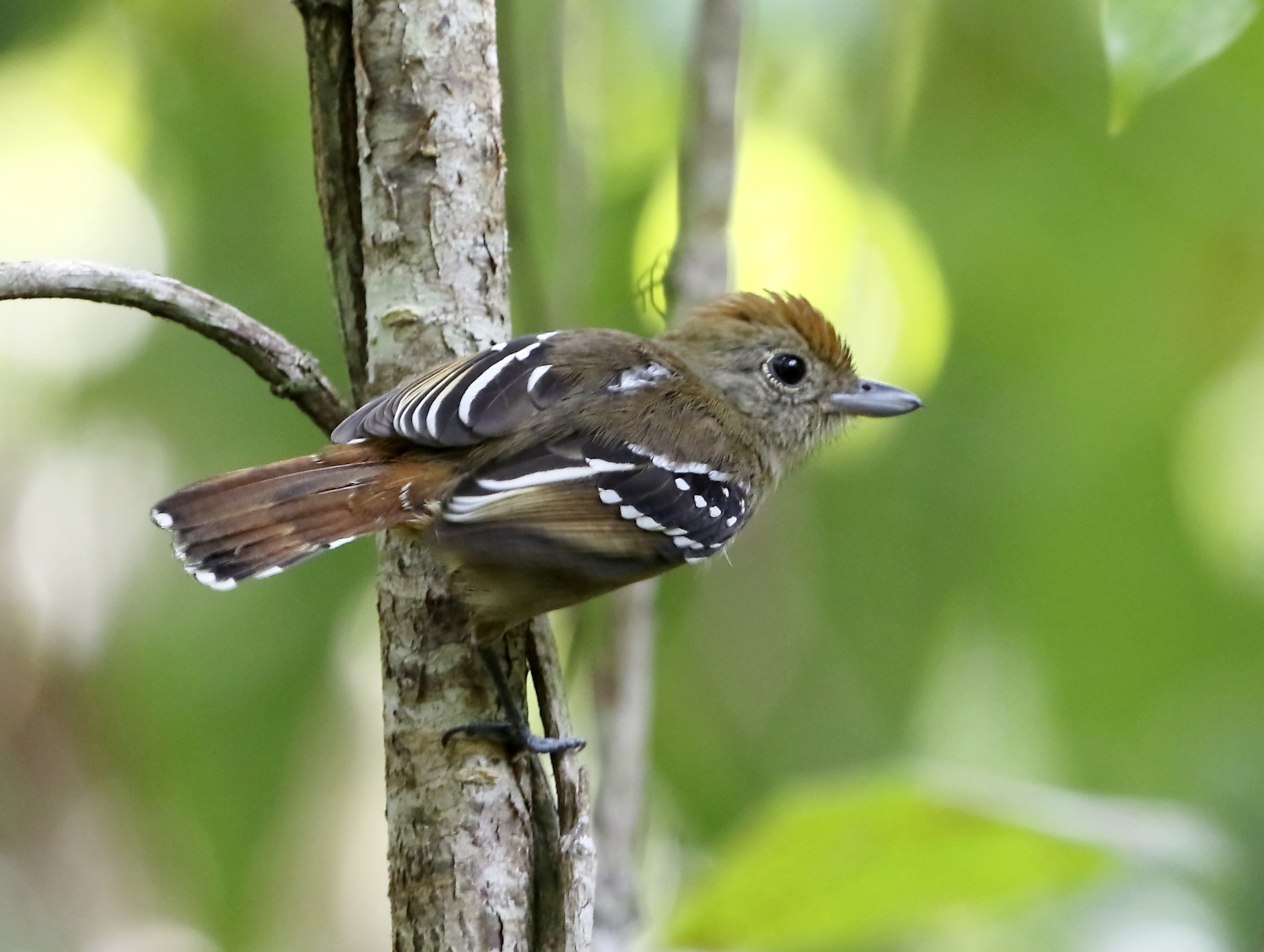 Sooretama slaty antbird female at Aracruz - Espirito Santo - Brazil